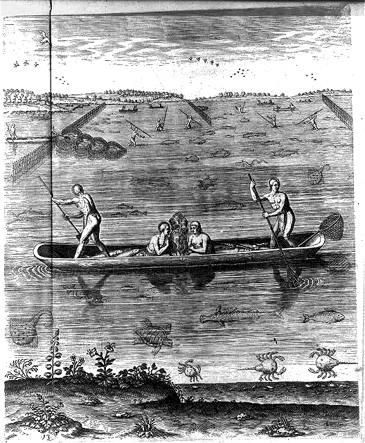 Indians (Native Americans) fishing with weir and spears in a dugout canoe. Published 1590, from 1585 drawing — Engraving by Theodor de Bry after watercolor by John White. The drawing was made somewhere in the region of the Colony of Virginia — (which included the modern state of North Carolina and parts of others).